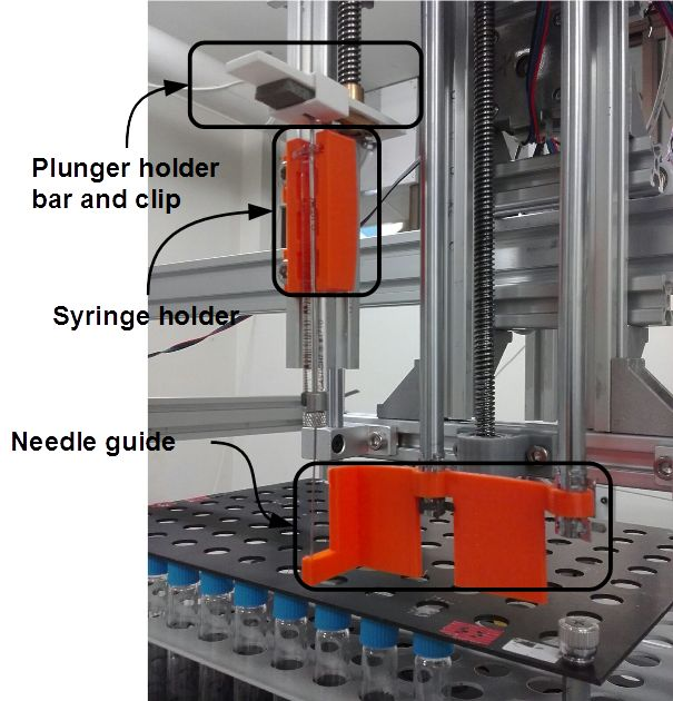 Detail of the microsyringe handling apparatus of an autosampler